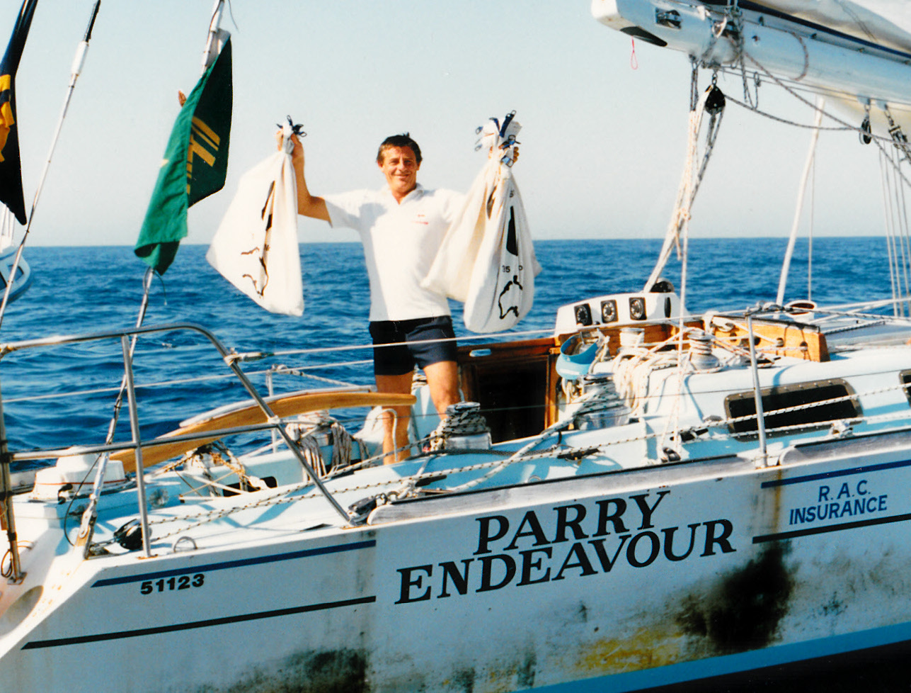 In 1987, during one of his three successive solo circumnavigations of the globe, Jon Sanders approached Fremantle and agreed to pause and receive a consignment of mail which was thrown on to his yacht by an Australia Post officer aboard a Customs vessel. No other form of direct contact was permitted under the rules of his voyage.